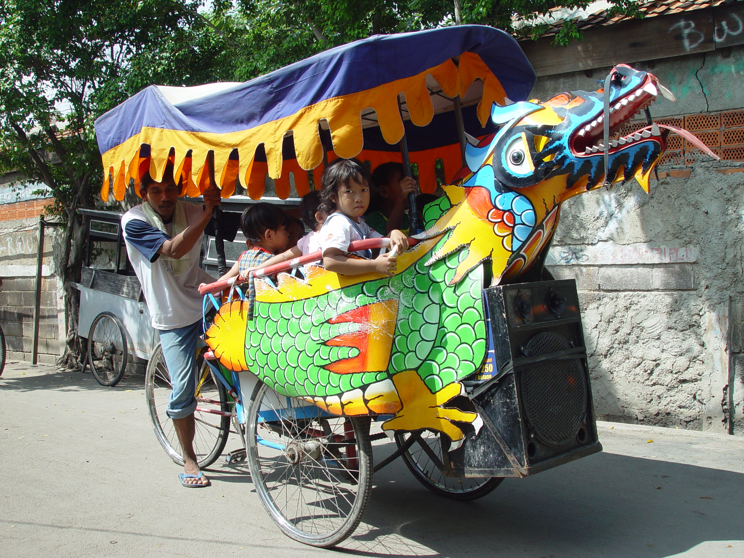 Amusement bike ride vehicle (ongol-ongol) North Jakarta, Indonesia. Children pay a few cents to take a ride around their neighborhood in the dragon that plays carnival music.